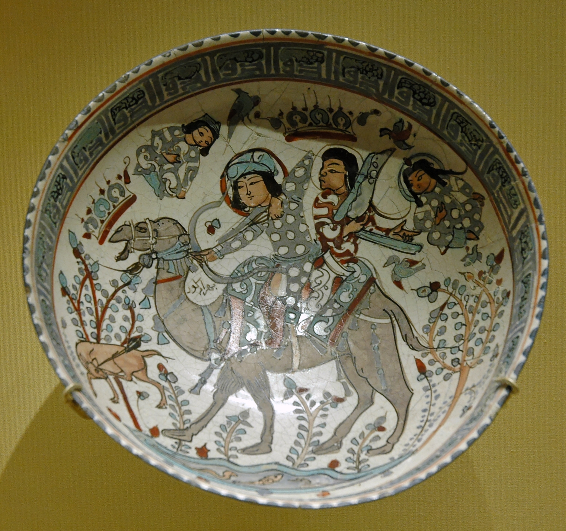 Plate with a hunting scene from the tale of Bahram Gur and Azadeh, mina'i ware.